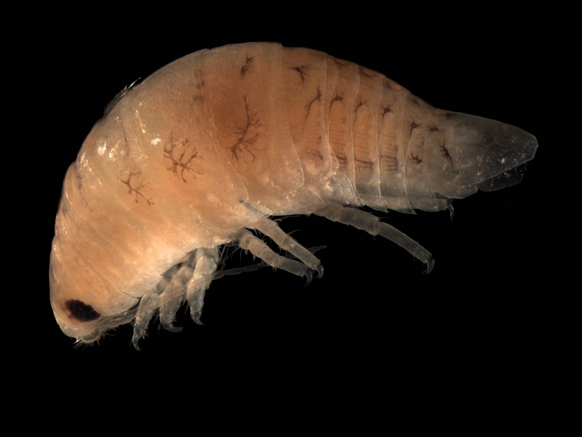 Marine isopod from the Belgian Continental Shelf 2003.Camera mounted on a Zeiss Stemi C-2000 binocular microscope.Length: ~3 mm.Note the typically pointed pleonites.